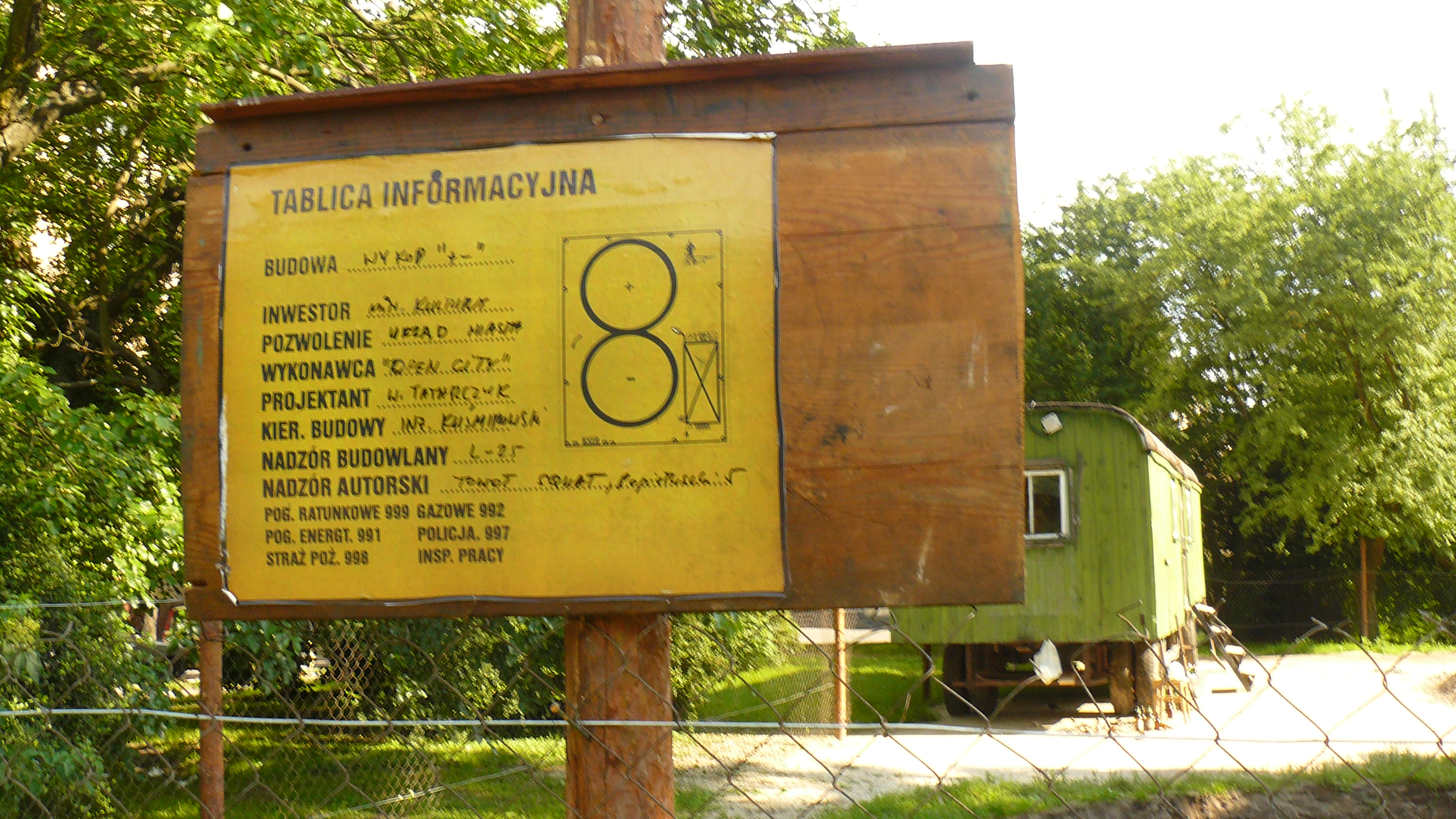 Robert Kuśmirowski, "Wykop +-", Place where we try to build something, never-ending story.